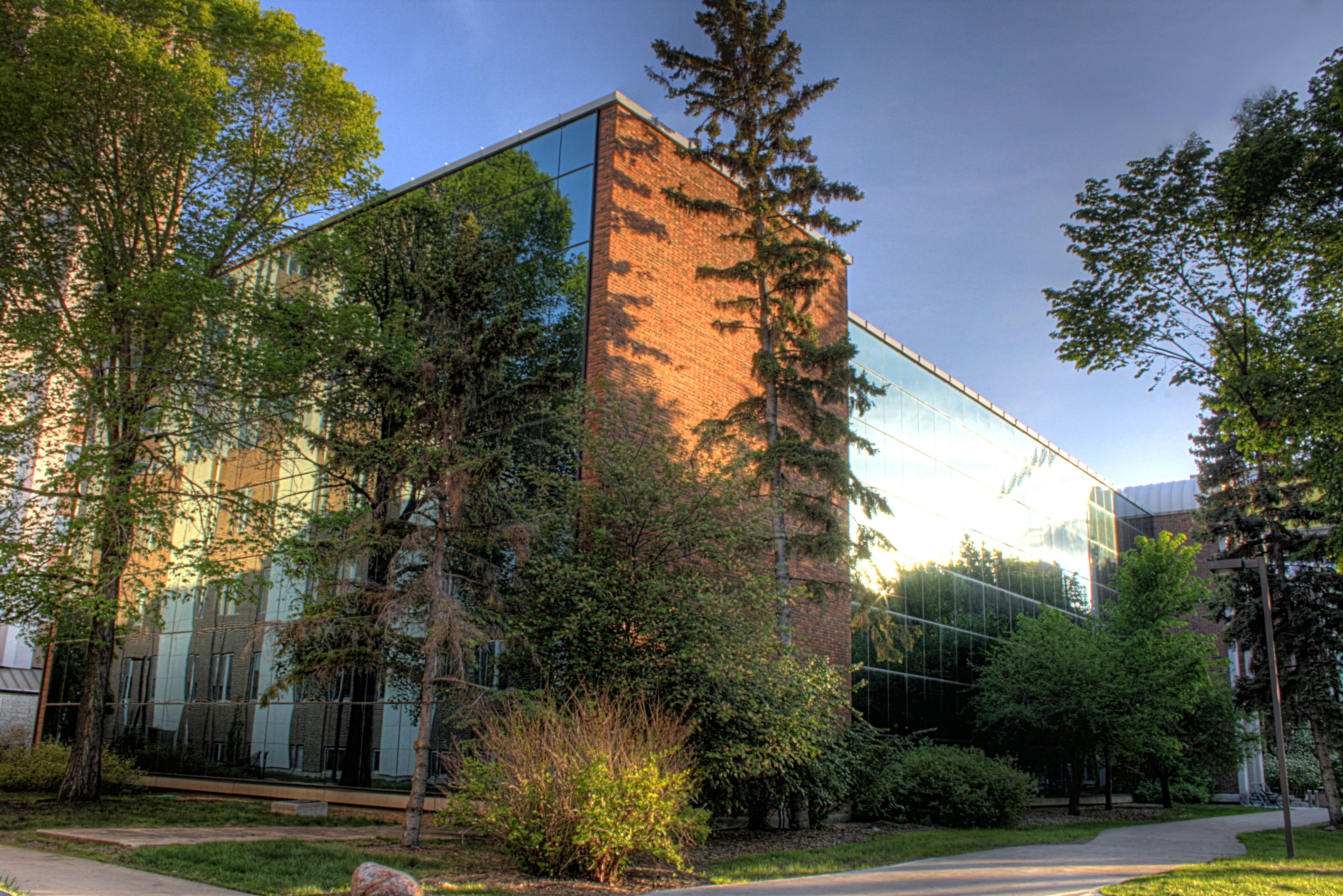 The Earth Sciences Building on the north campus of the University of Alberta in Edmonton, Alberta, Canada.